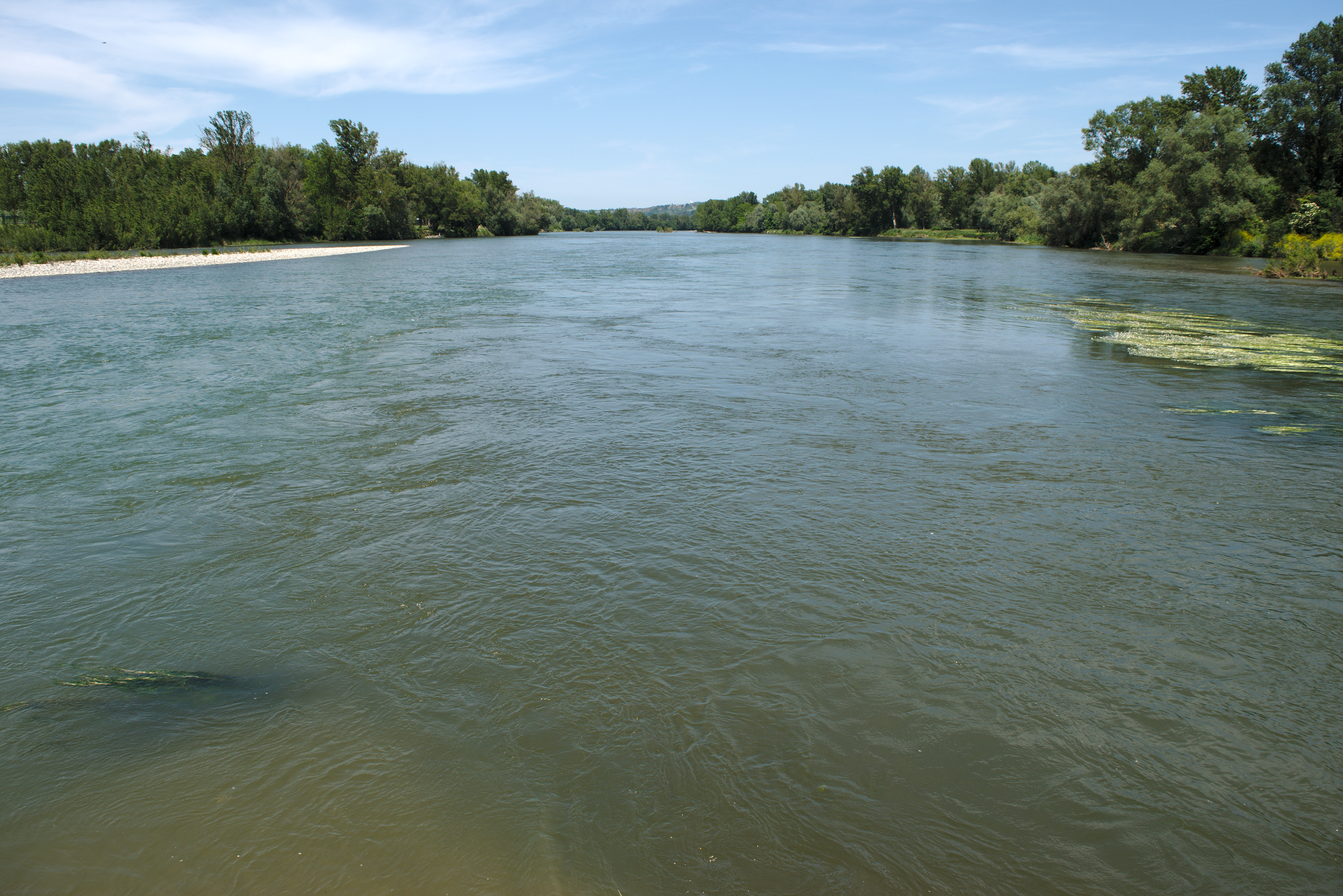 Confluence of Garonne (left) and Ariège (right)